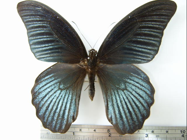 Kerry took this picture at his house on 16 July 2005 Scientific name: Papilio memnon heronus ♂ (back) Date of collection: 31 V 1997 Place of collection: Taipei city, Taiwan